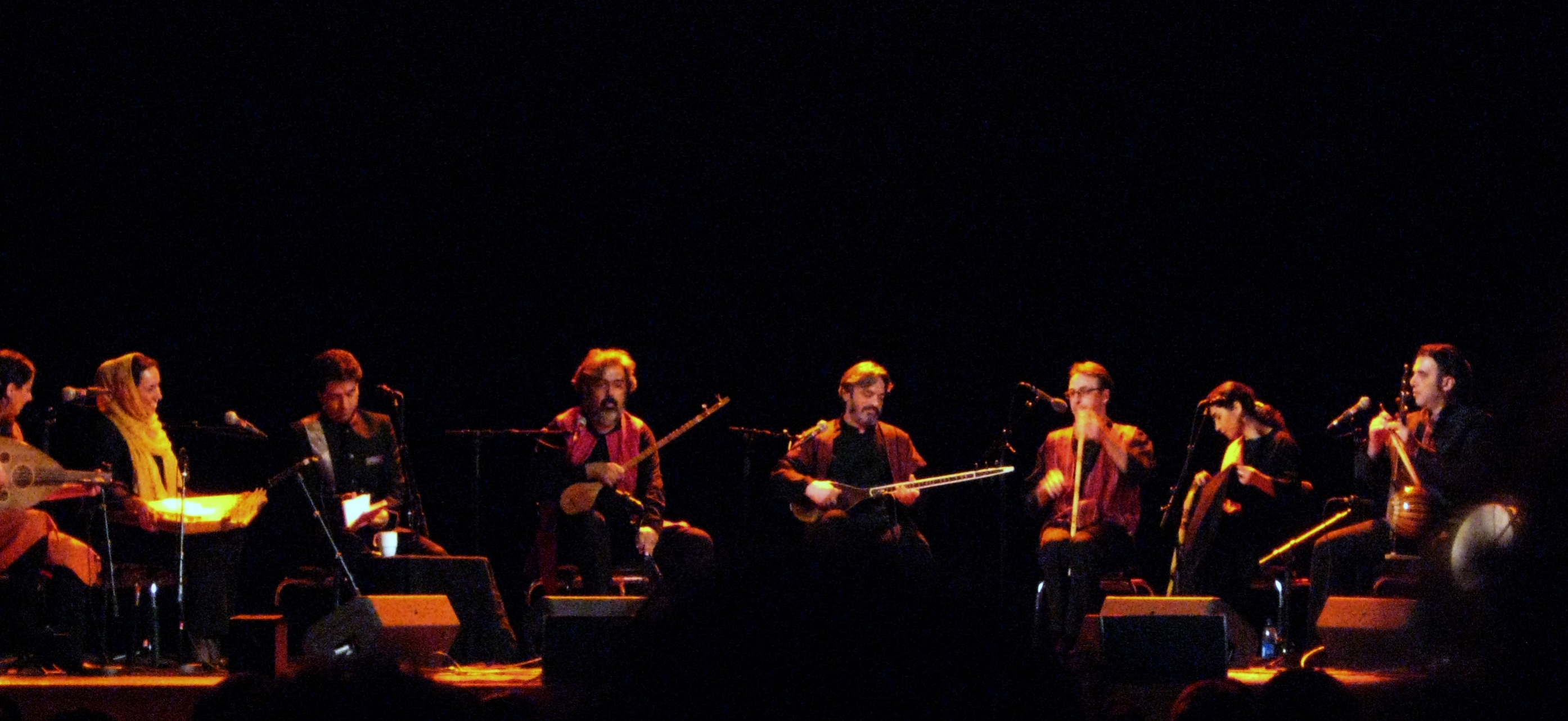 Hossein Alizadeh & Hamavayan Ensemble Göteborg concert hall September 28 2013